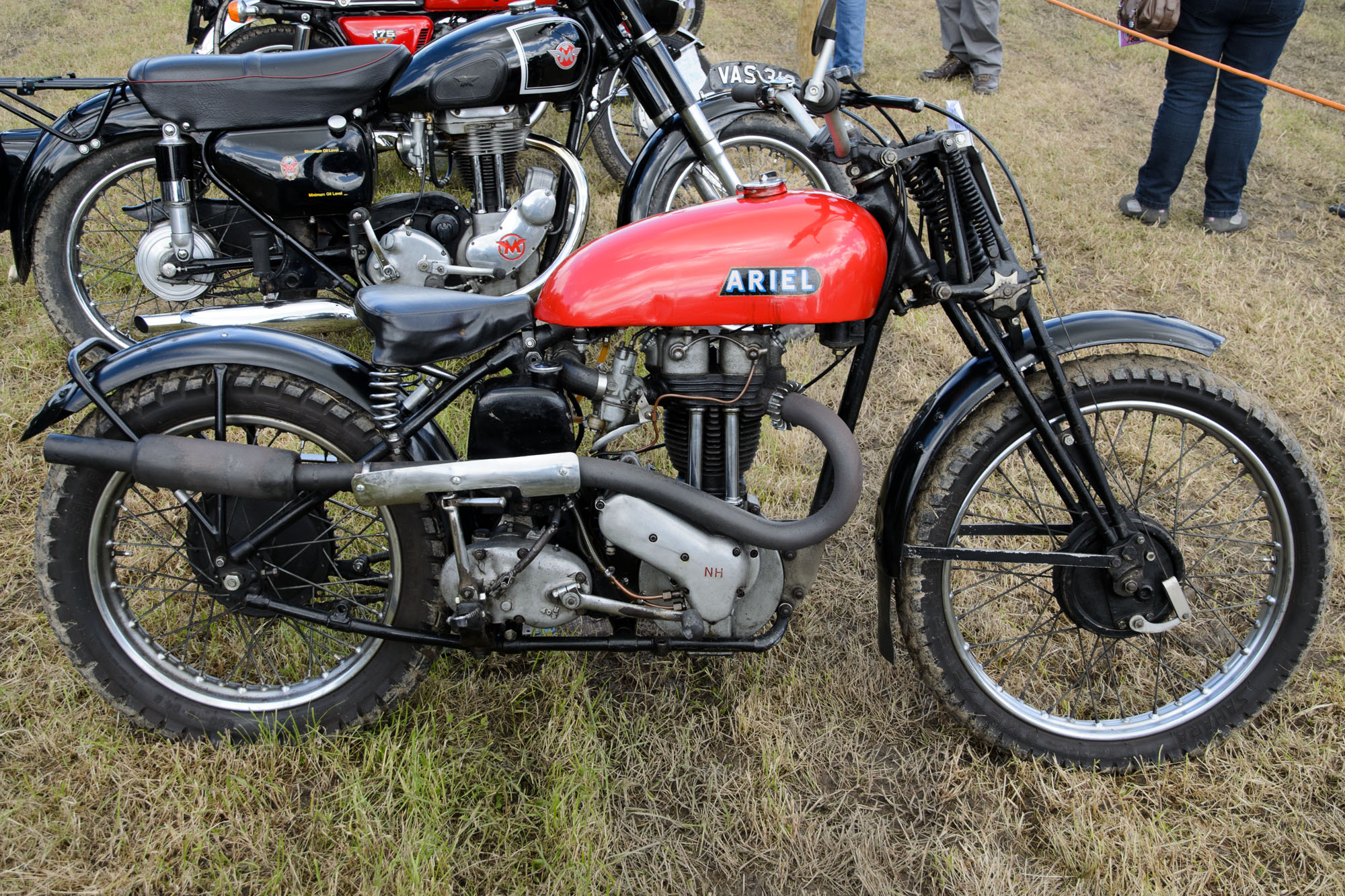 Heskin Hall Steam Fair 30/05/2015